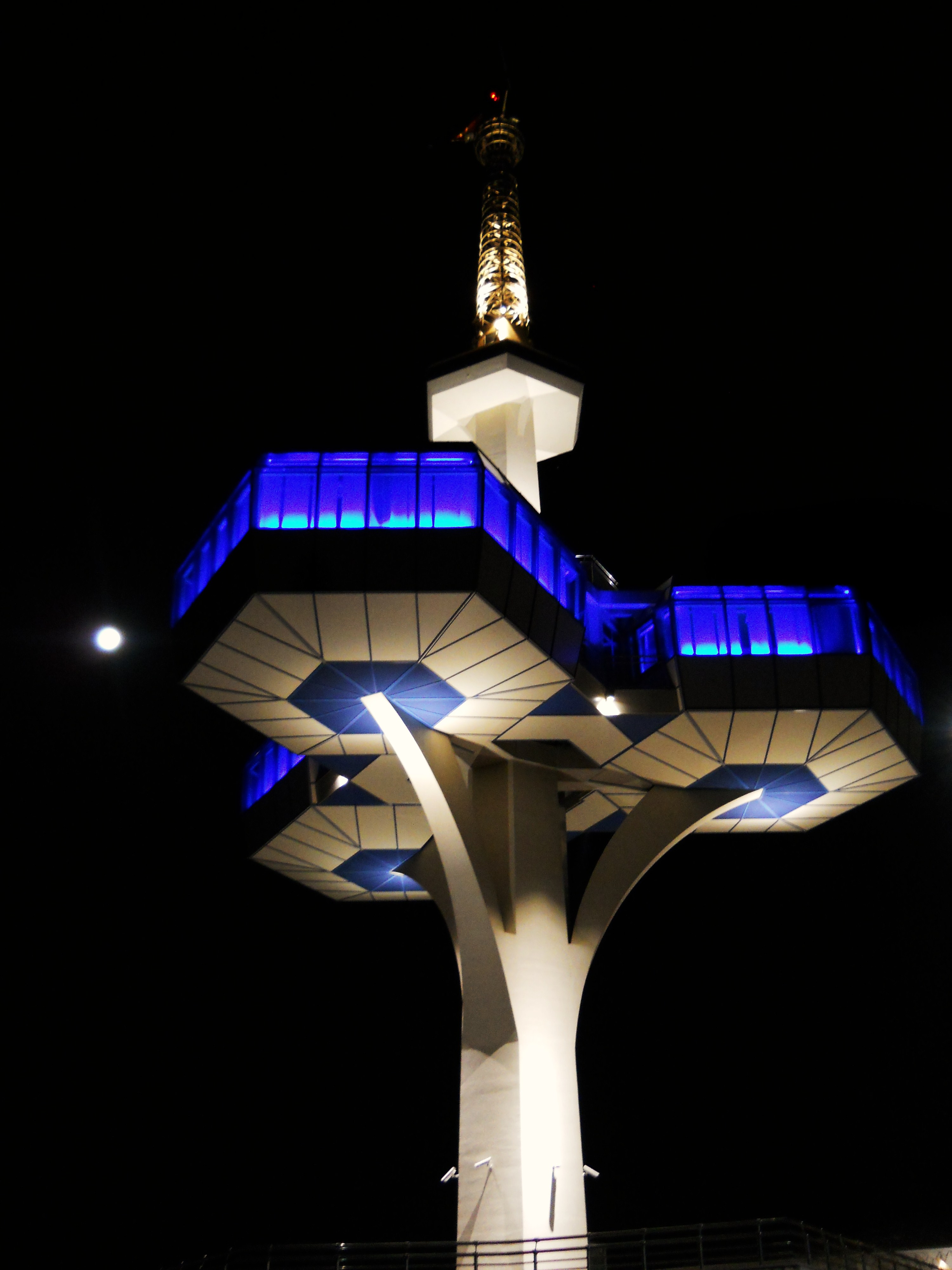 Dajbabska Gora tower